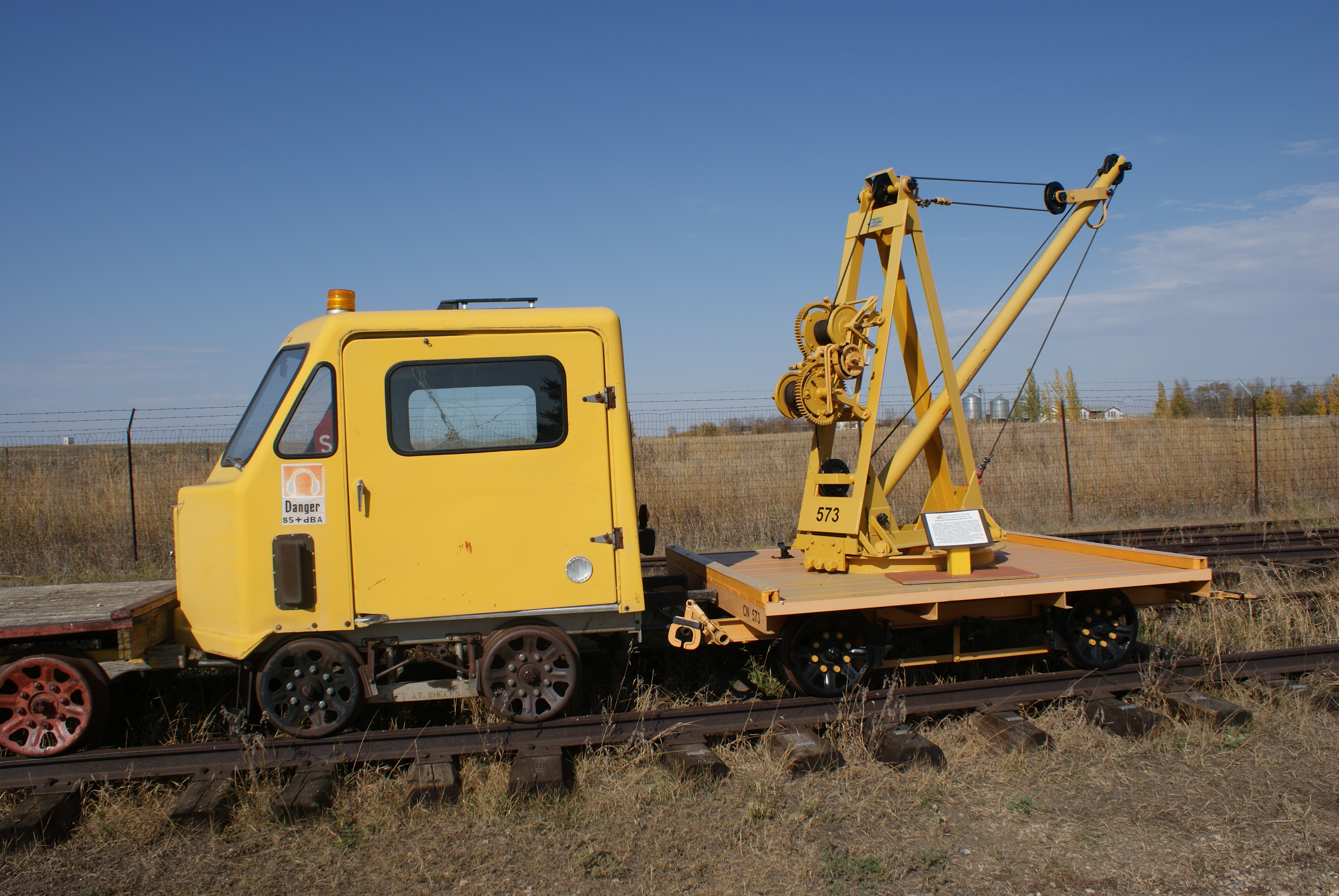 CNR Locomotive crane derrick car behind a Speeder at the Saskatchewan Railway Museum